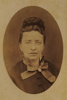 wife of sultan Abdulmecid I